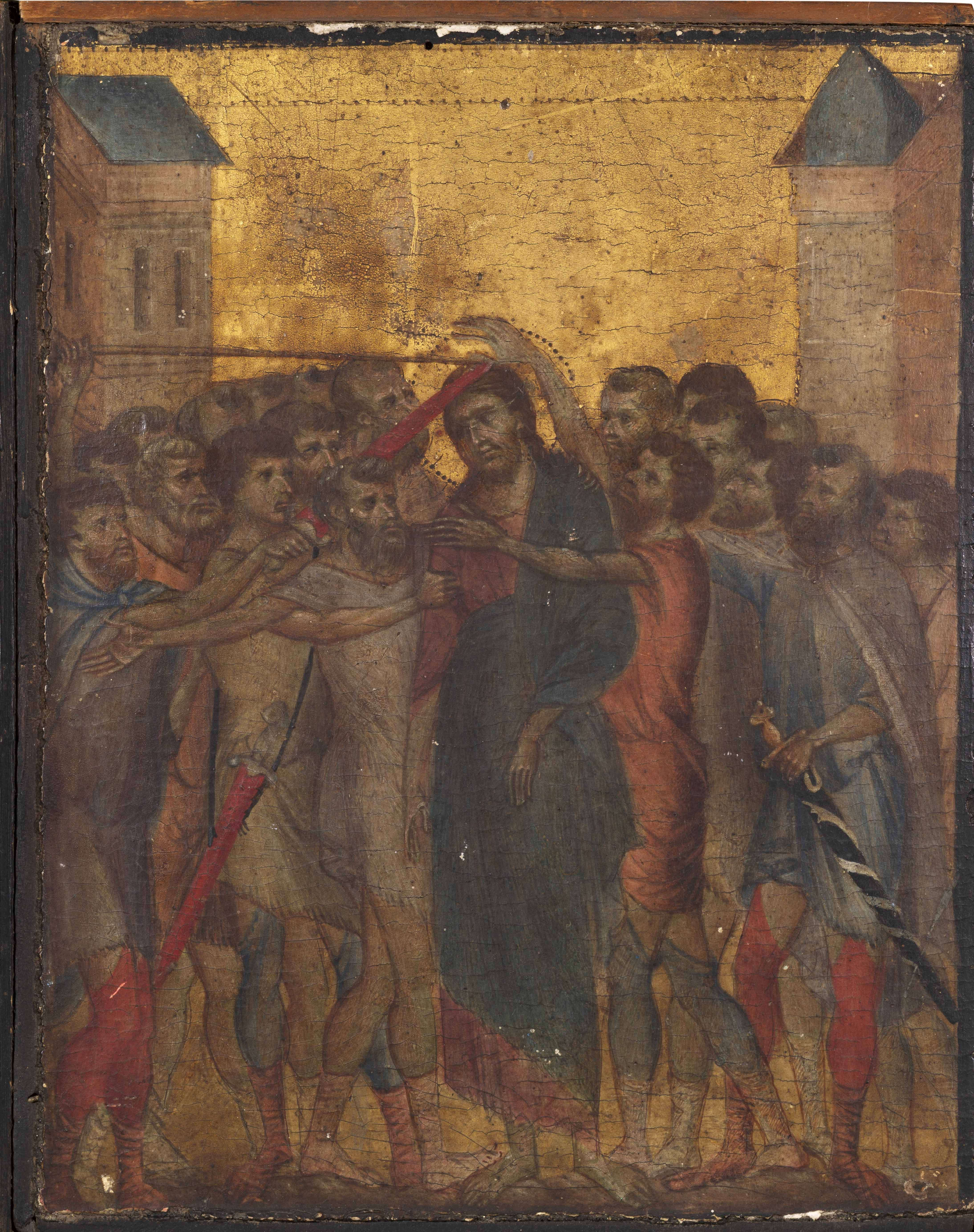 Christ Mocked by Cimabue, painting found in northern France